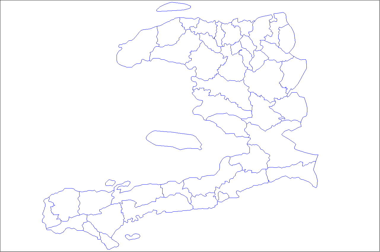 Map of the arrondissements of Haiti. Created by Rarelibra 21:02, 27 April 2007 (UTC) for public domain use, using MapInfo Professional v8.5 and various mapping resources.